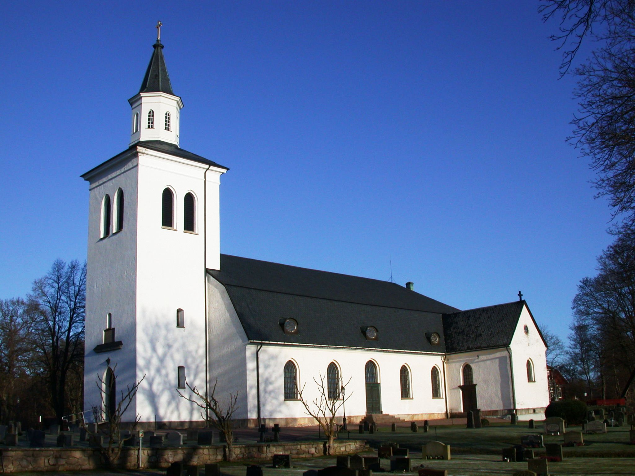 Åby church, Kalmar, Sweden